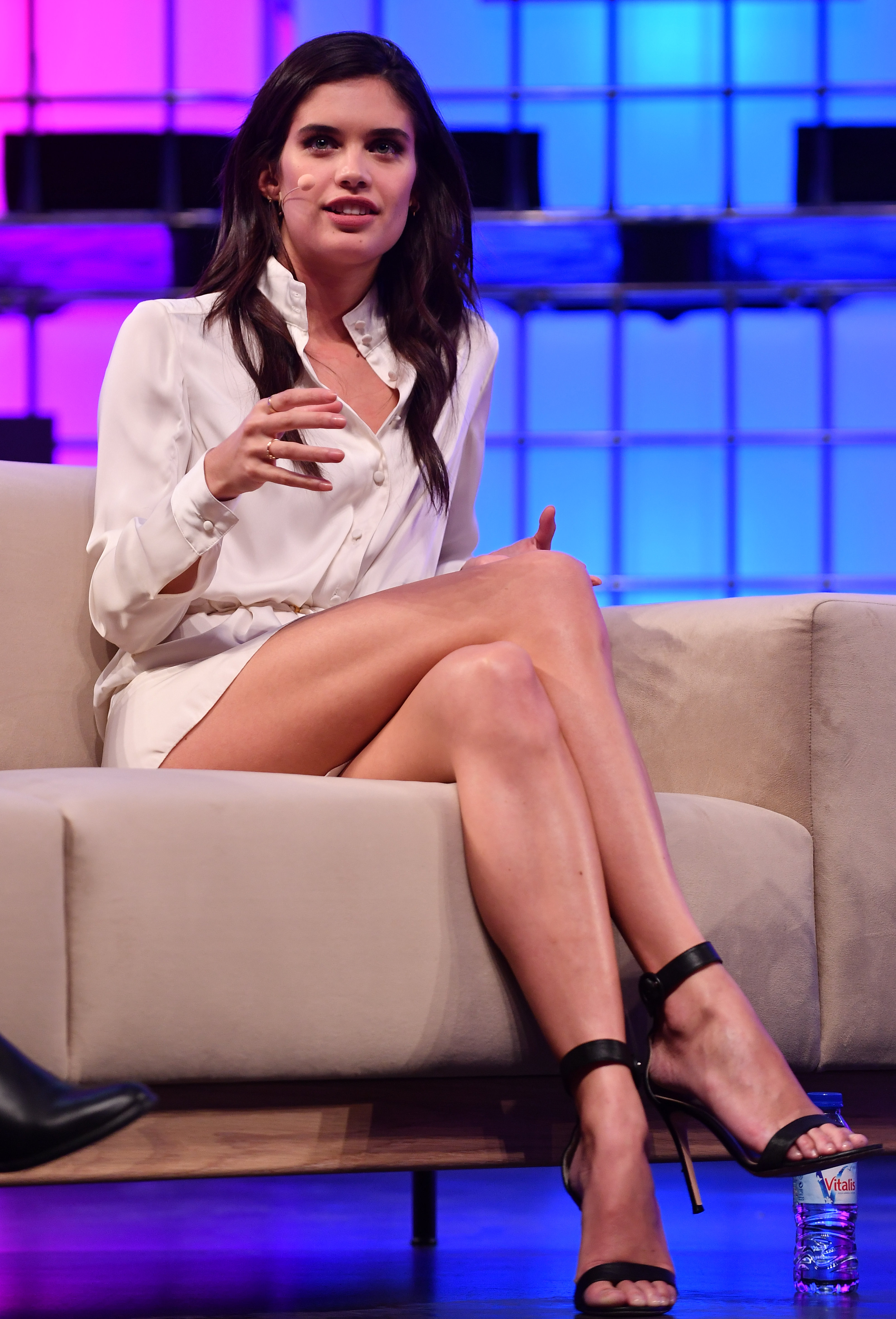 9 November 2017; Sara Sampaio, Model, Victoria's Secret, on the Centre Stage during day three of Web Summit 2017 at Altice Arena in Lisbon. Photo by Sam Barnes/Web Summit via Sportsfile